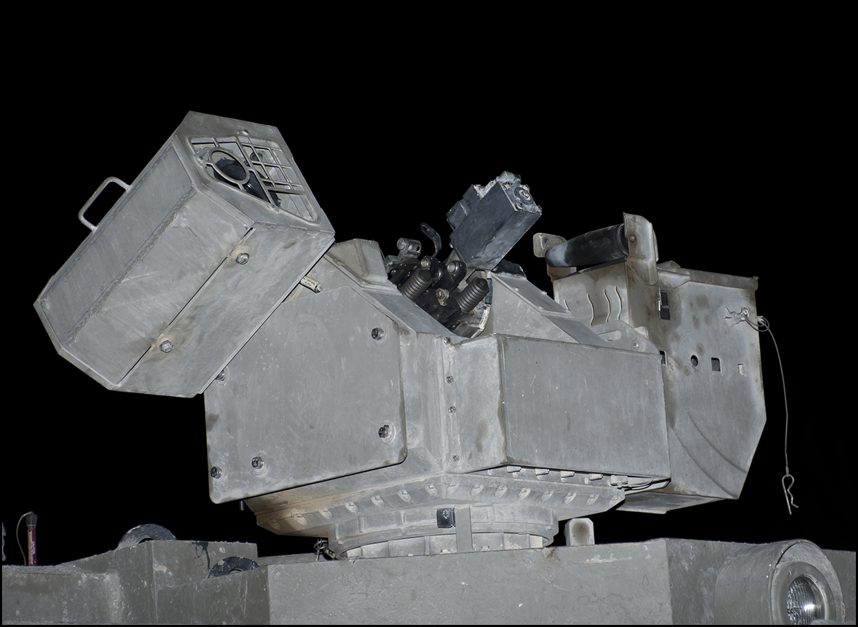 Draconith RCWS installed on an IDF Puma CEV, Israel Combat Engineering Corps Annual Commemoration Ceremony, 13 September 2016, Israel